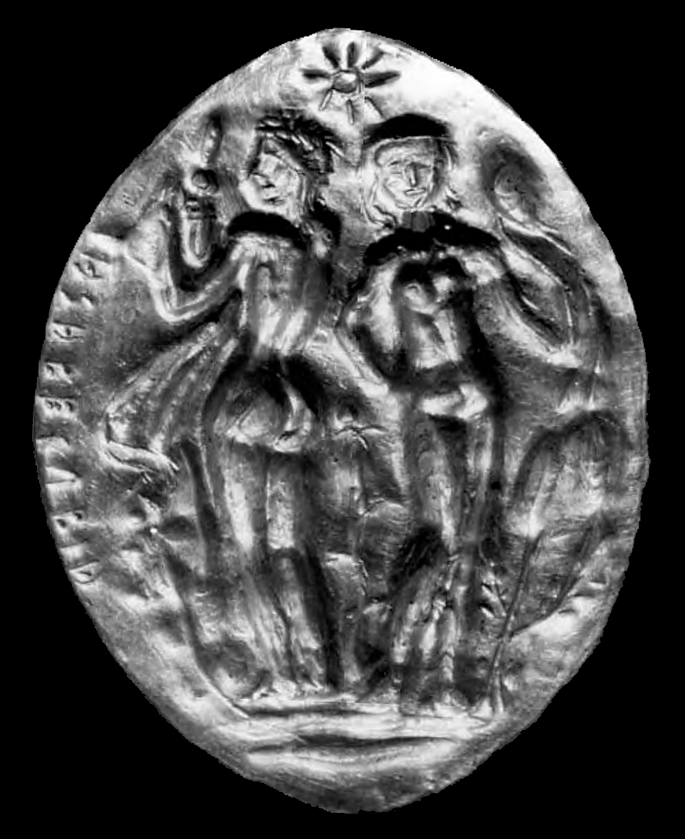 Gold ring bezel with Lasa Vecuvia from Todi. Early third century BC. Museo Etrusco di Villa Giulia, Rome.